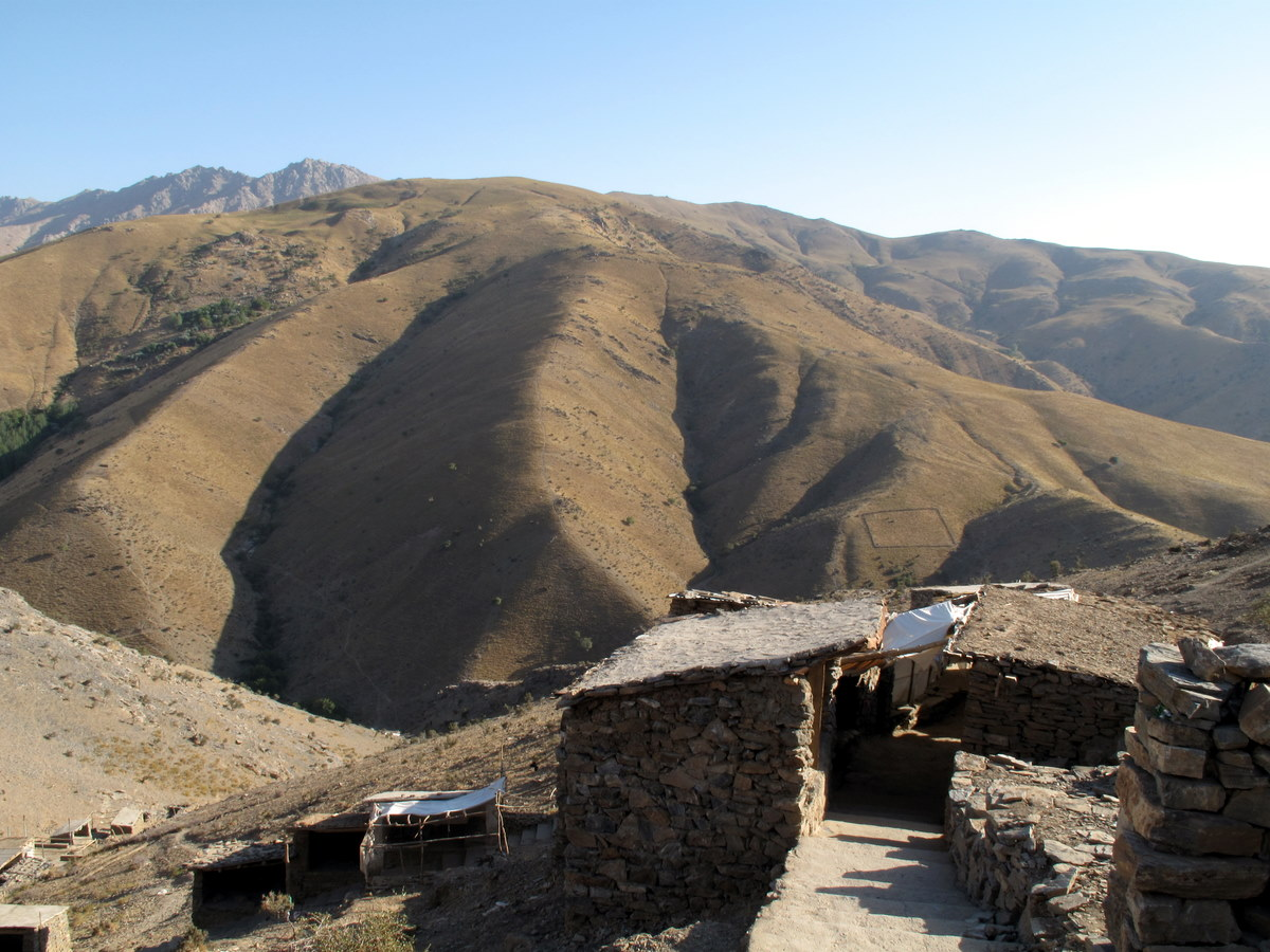 Abandoned Hillside Shops